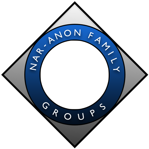 Current logo of Nar-Anon Family Groups, Inc.